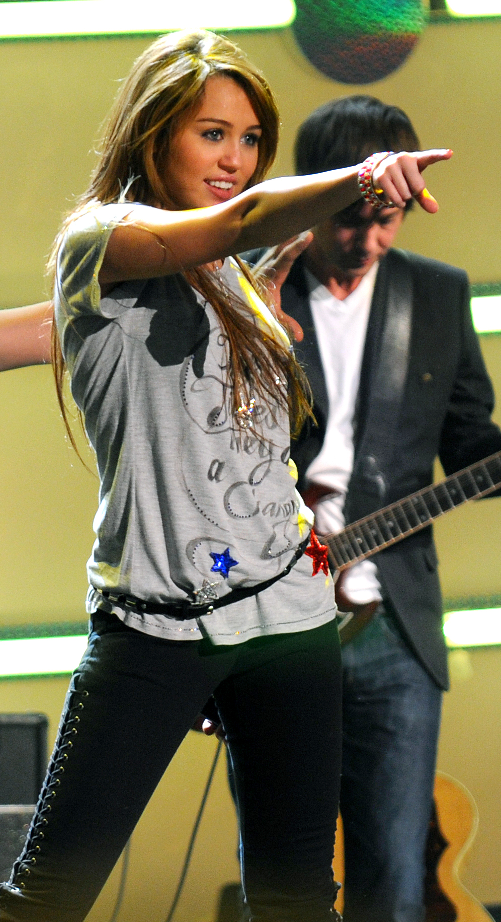 Miley Cyrus performs at the “Kids Inaugural: We Are the Future” concert at the Verizon Center in downtown Washington, D.C., Jan. 19, 2009.